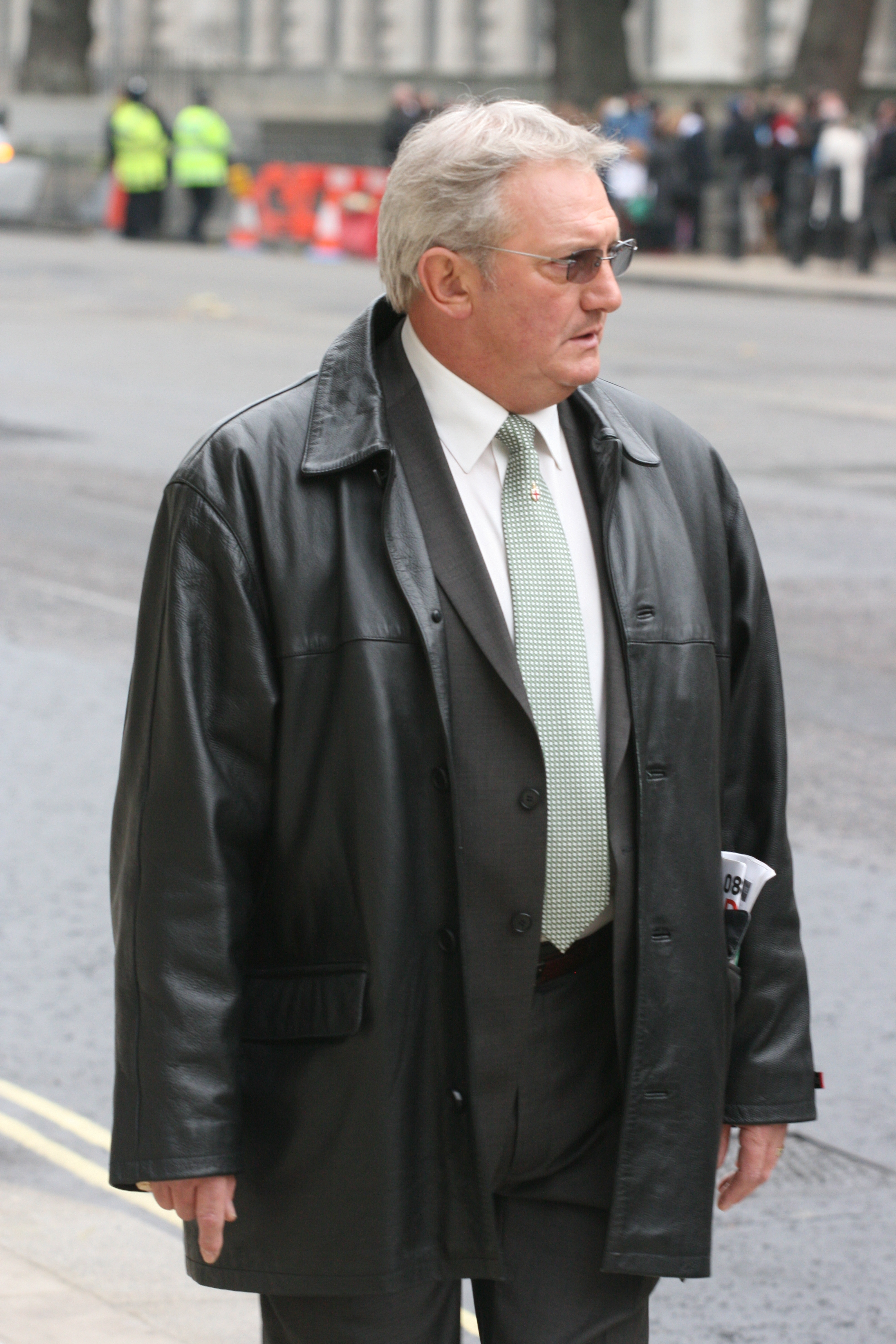 English actor Graham Cole, best known for his role in The Bill on Whitehall, London.